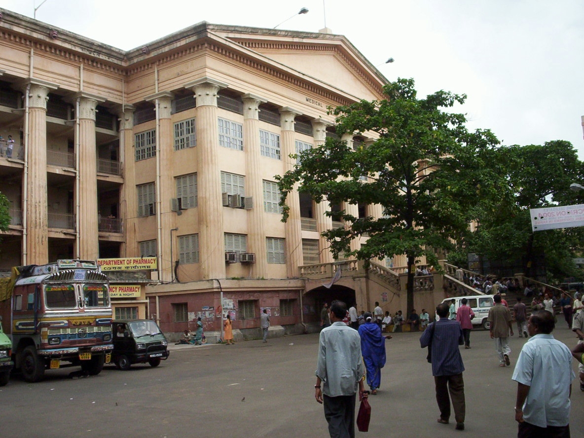 The frontal facade of the Medical College and Hospital building of Calcutta Medical College, Kolkata, West Bengal